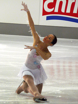 Ekaterina Proyda at the Free program of the Nebelhorn Trophy 2007 Oberstdorf/Germany